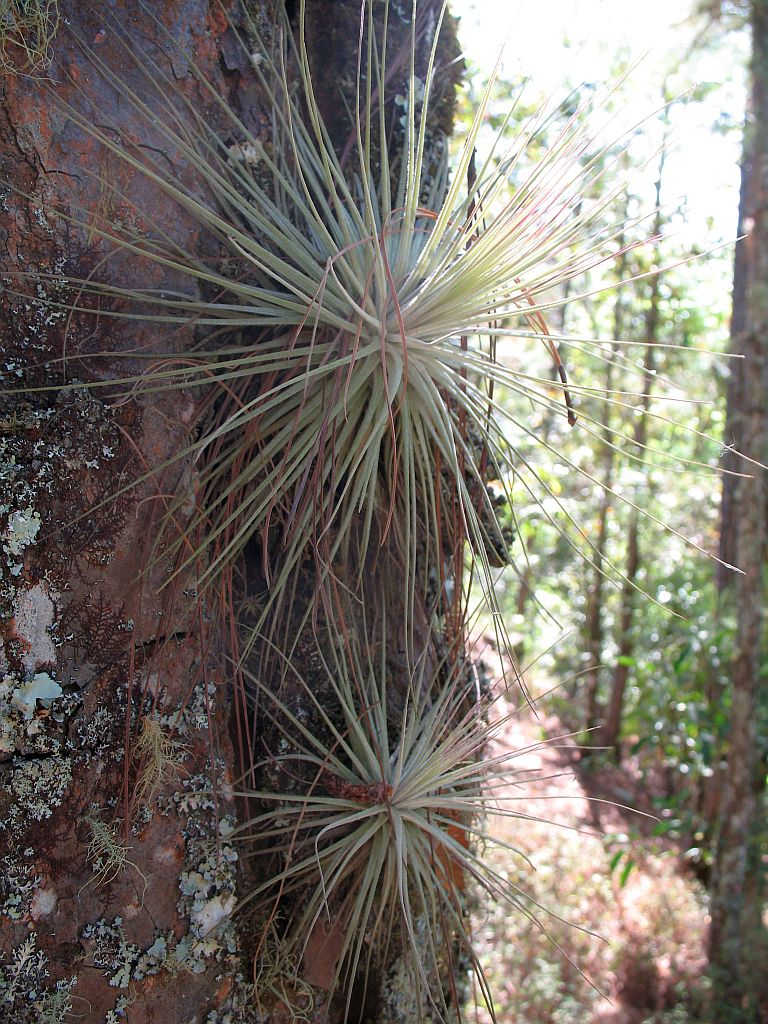 Tillandsia magnusiana, in habitat in El Salvador, Dept. Santa Ana, Parque Nacional Montecristo; 1231m.